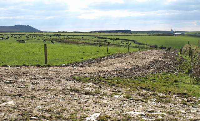 Looking south from the end of Tyland Road. From the same place as 730232 and 734912 were taken, this view looks across the marshy valley seen in 734810, with a large herd of cattle grazing. Another large bank is on the right. In the distance on the right is the infamous Lowermoor waterworks , in SX1283. Rough Tor is to the left.